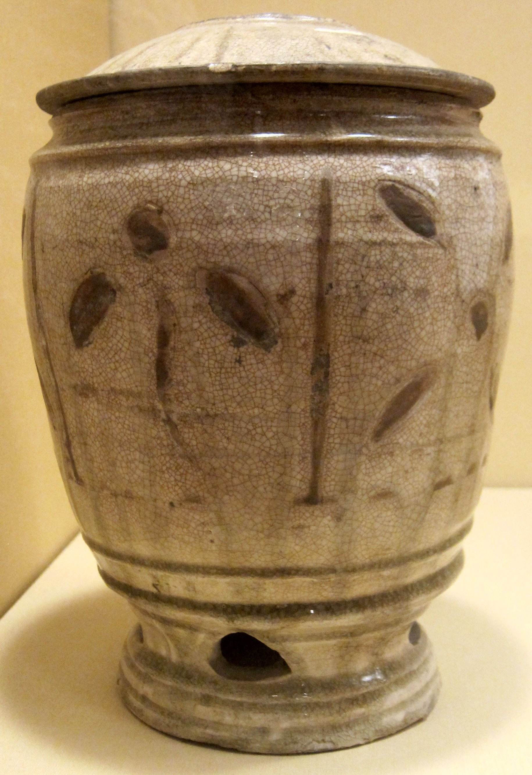 Grain jar from Vietnam, Thanh Hoa, 11th-12th century, porcelain with crackled glaze, Honolulu Academy of Arts